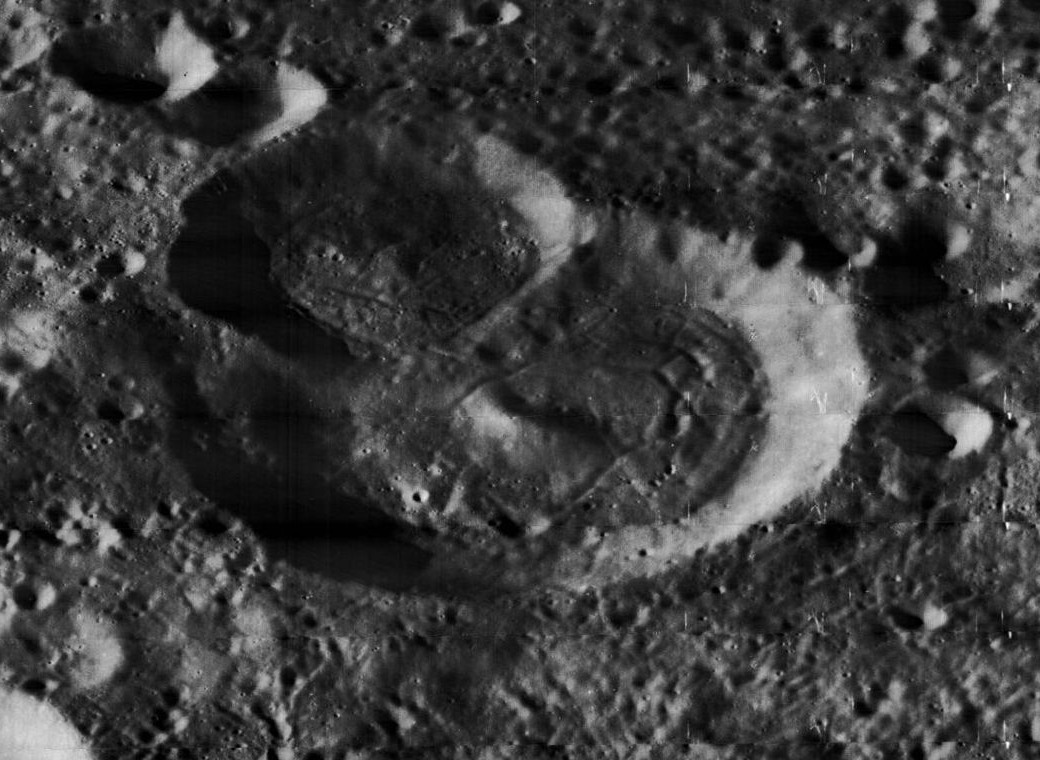 Oblique view of Anderson F (center) and Anderson E (upper left) craters, northeast of Anderson, on the far side of the moon. North at top.